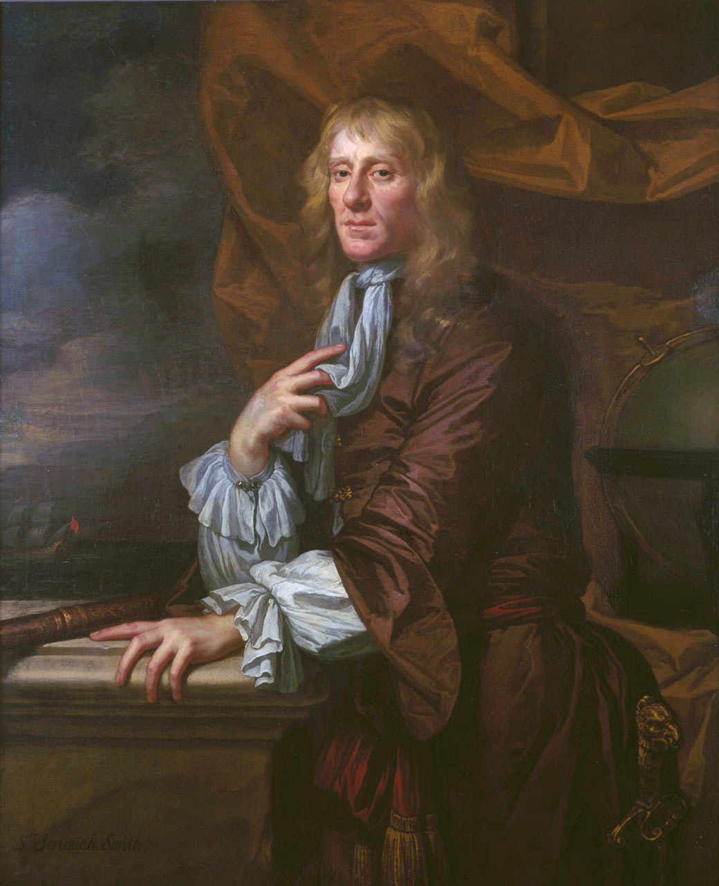 A three-quarter-length portrait to left in a brown silk coat fastened with gold clips and with a gold-tasselled red sash round his waist. He is leaning forward onto a stone plinth, his right hand fingering his neck cloth. His telescope rests on the plinth in front of him, and there is a ship beyond. In the right background is a globe and brown draperies.